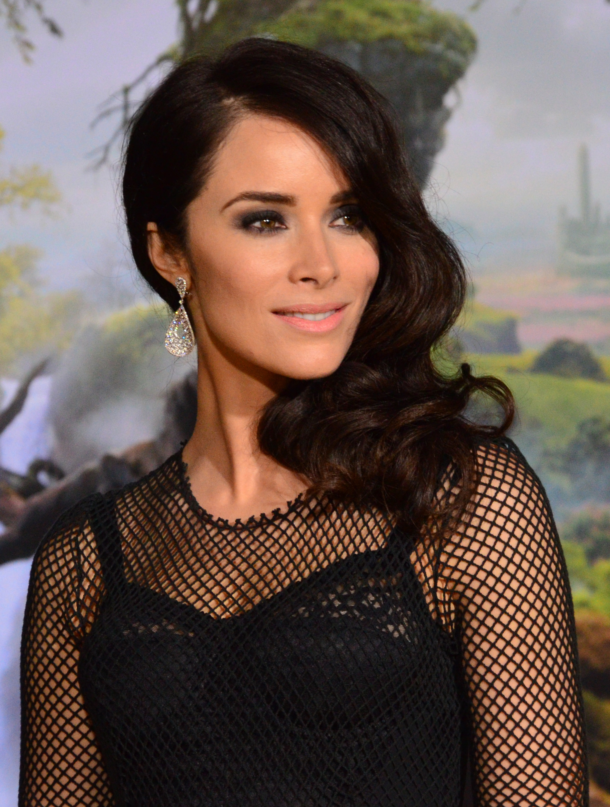 Abigail Spencer - 2013 by MingleMediaTVNetwork